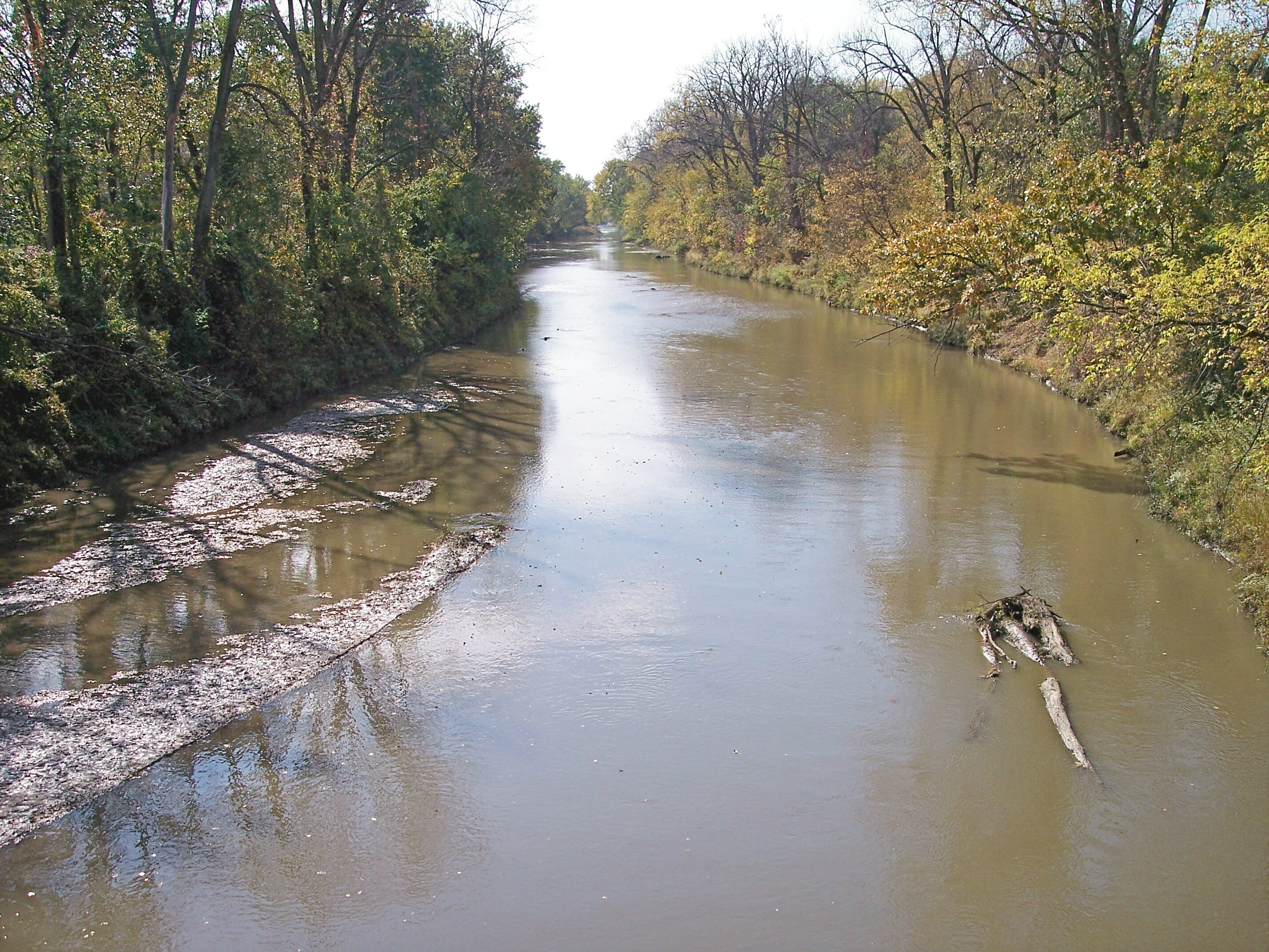 The Middle River as viewed upstream from the Summerset Trail in Warren County, Iowa, between the towns of Indianola and Carlisle